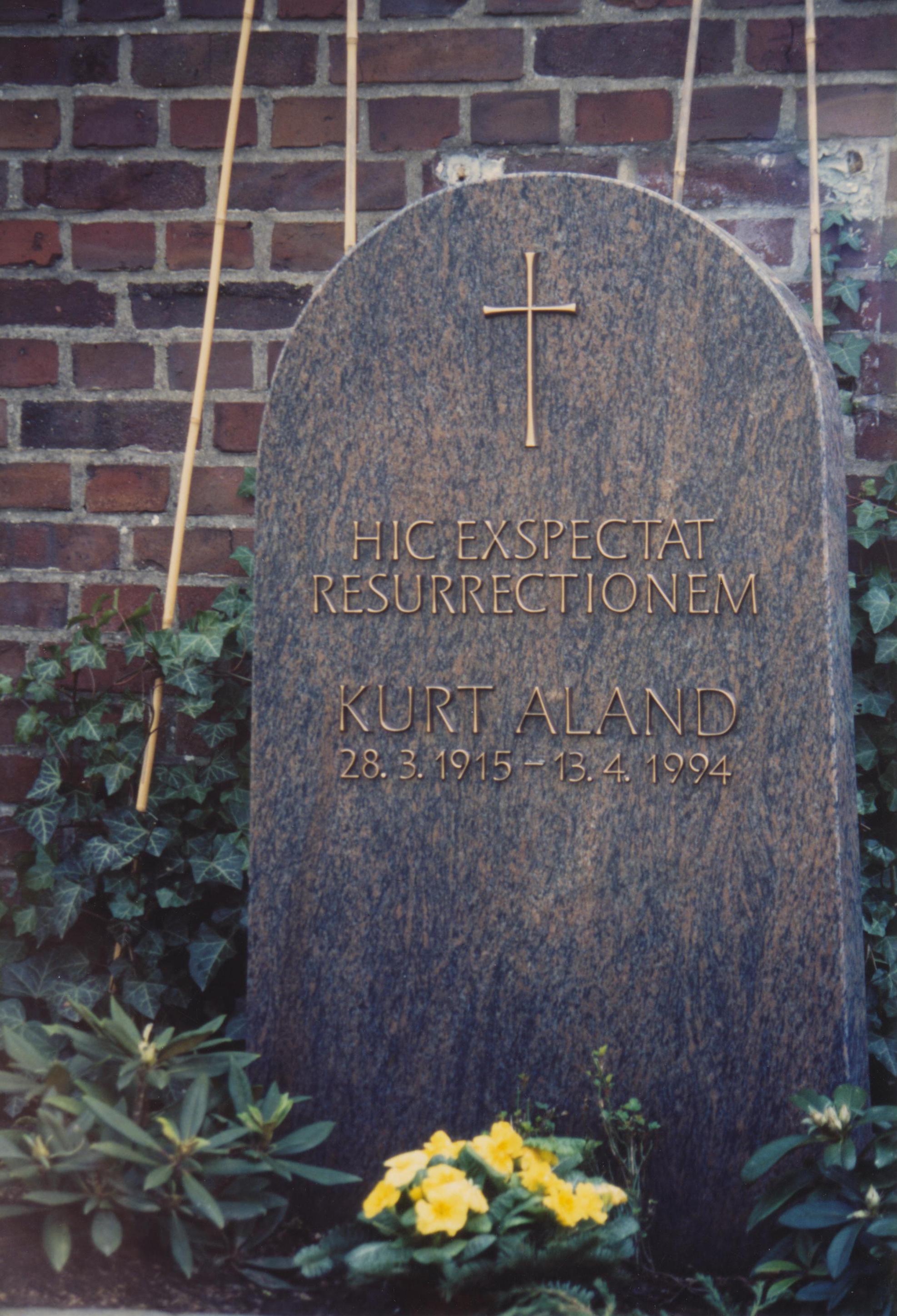 The grave of the German theologian Kurt Aland on the Central Cemetery Münster, Germany.